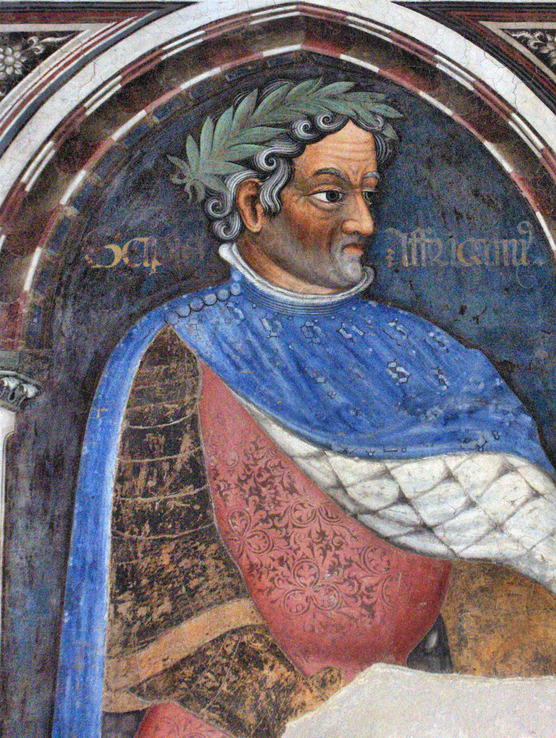 "Scipio Africanus" fresco by Gentile da Fabriano, Giants Room; Trinci Palace, Foligno, Italy